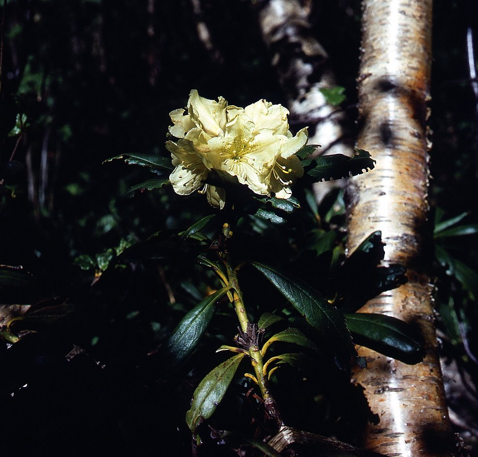 Rhododendron caucasicum, also known as Georgian Snow Rose